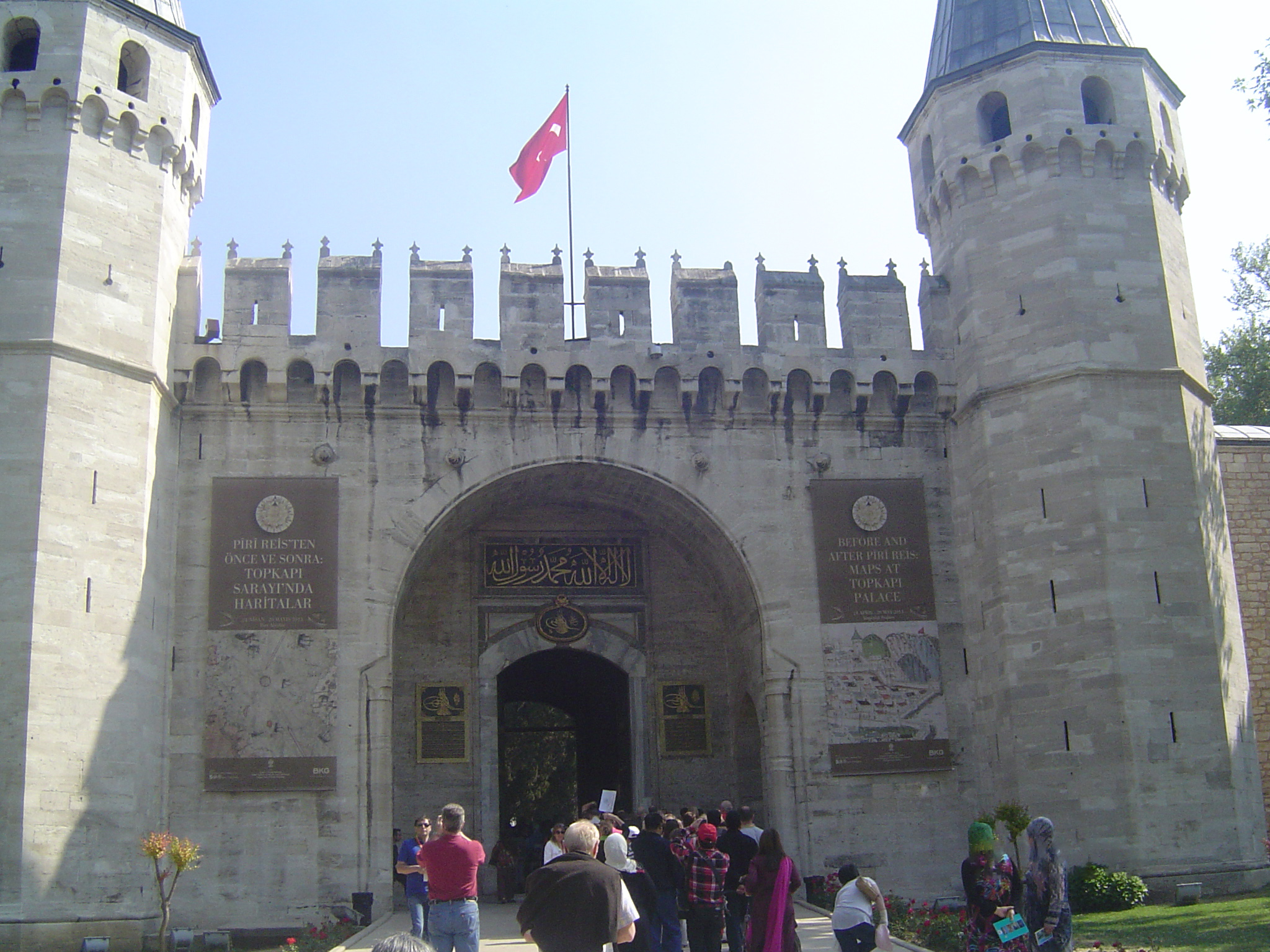 Top Kapi Palace Main entrance